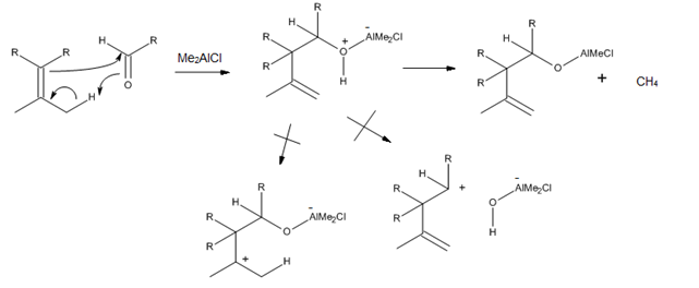 ene reaction